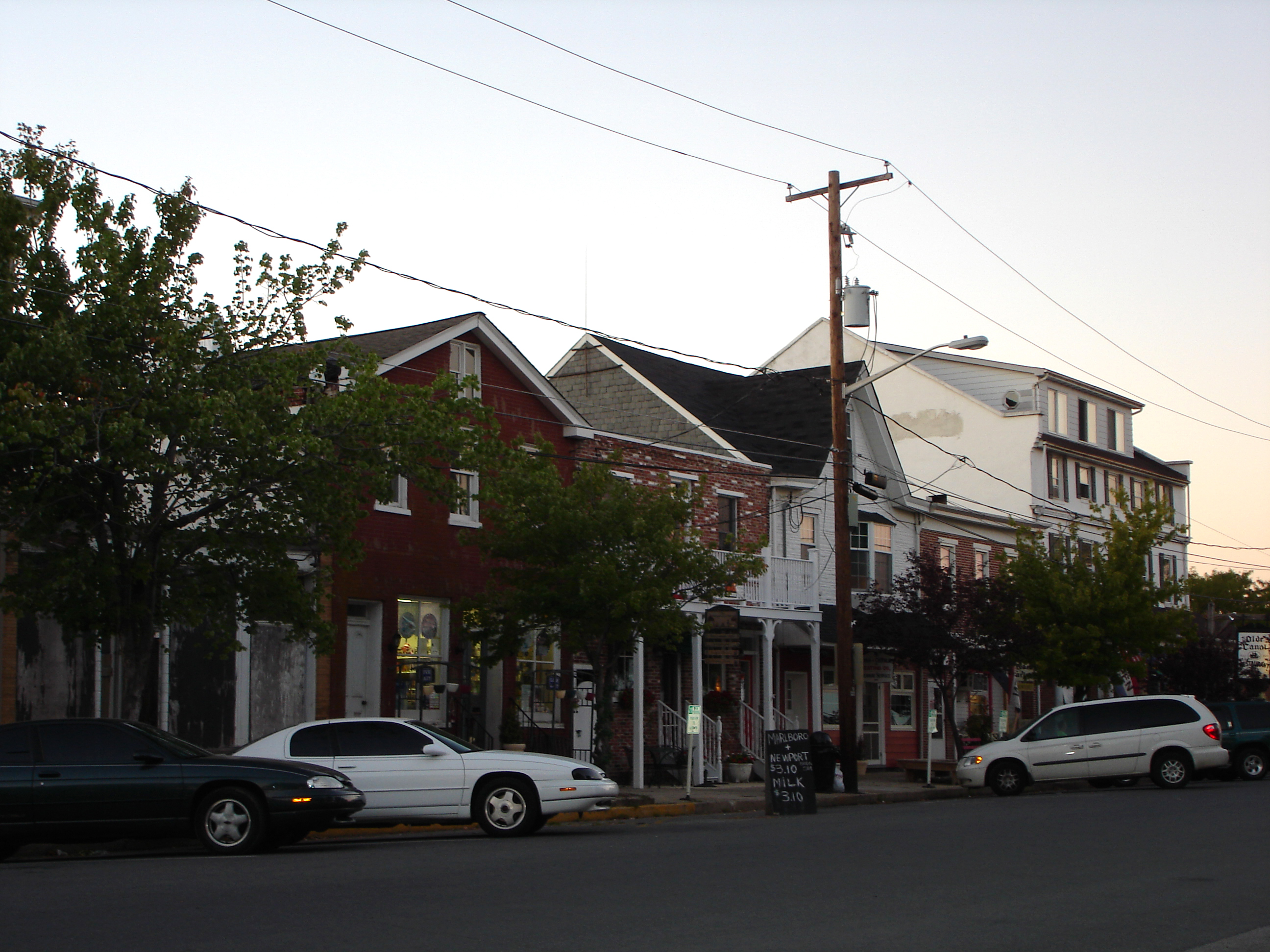 Clinton St. Delaware City, Delaware